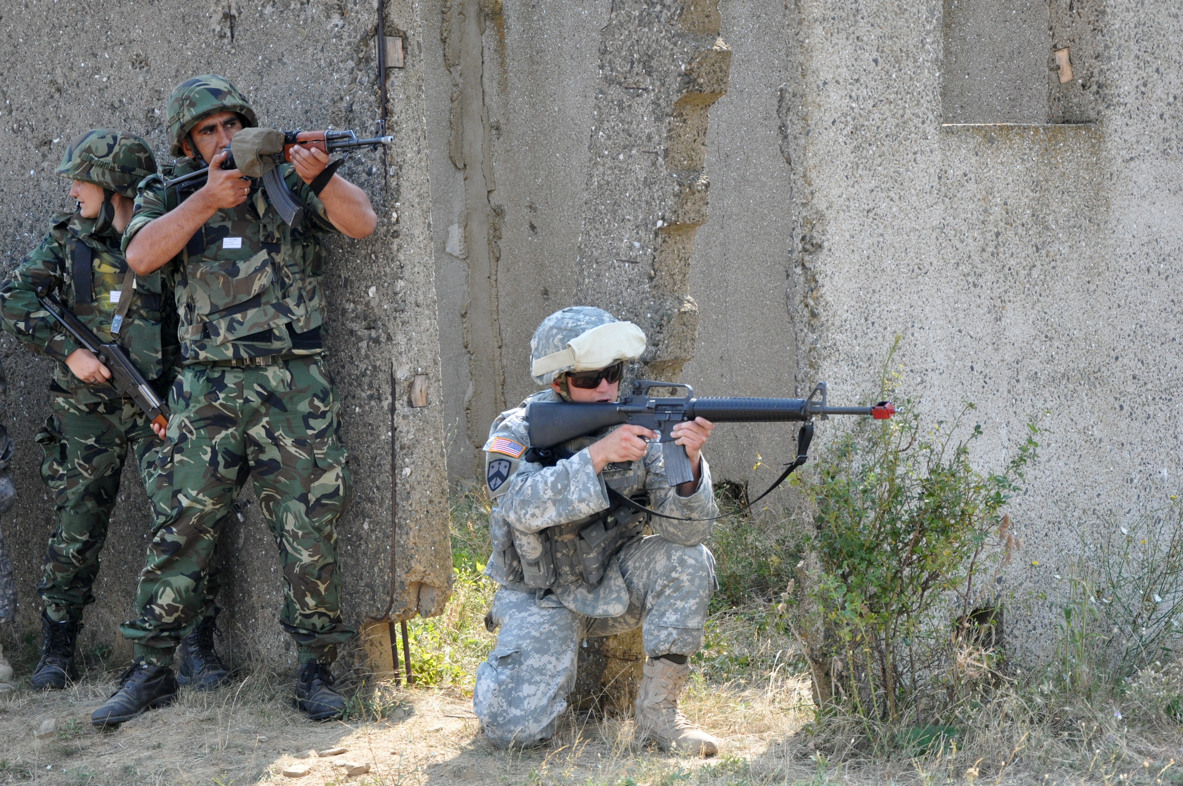 NOVO SELO TRAINING AREA, Bulgaria – Members of the Bulgarian Land Forces 4th Artillery Regiment and U.S. Army Tennessee National Guard 1-181st Field Artillery Battalion provide security for other service members as they sweep through a mock village during military operations in urban terrain training here Aug. 15 as part of Joint Task Force-East. JTF-E offers troops opportunities to train in a joint service and multinational environment.